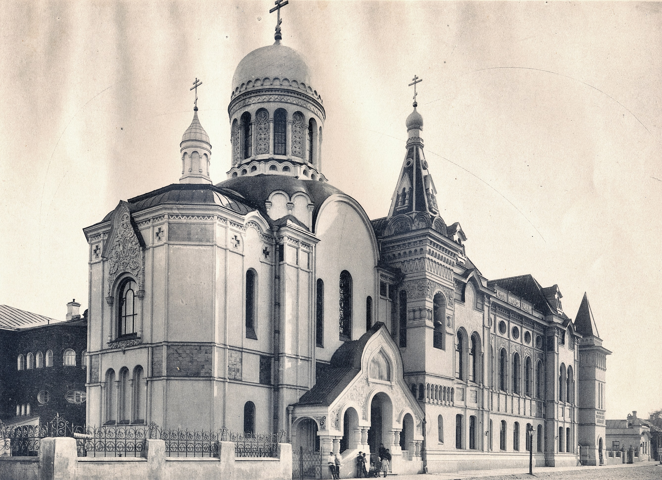 Home chusch of the Female commercial college in Moscow, present-day Plekhanov RUE